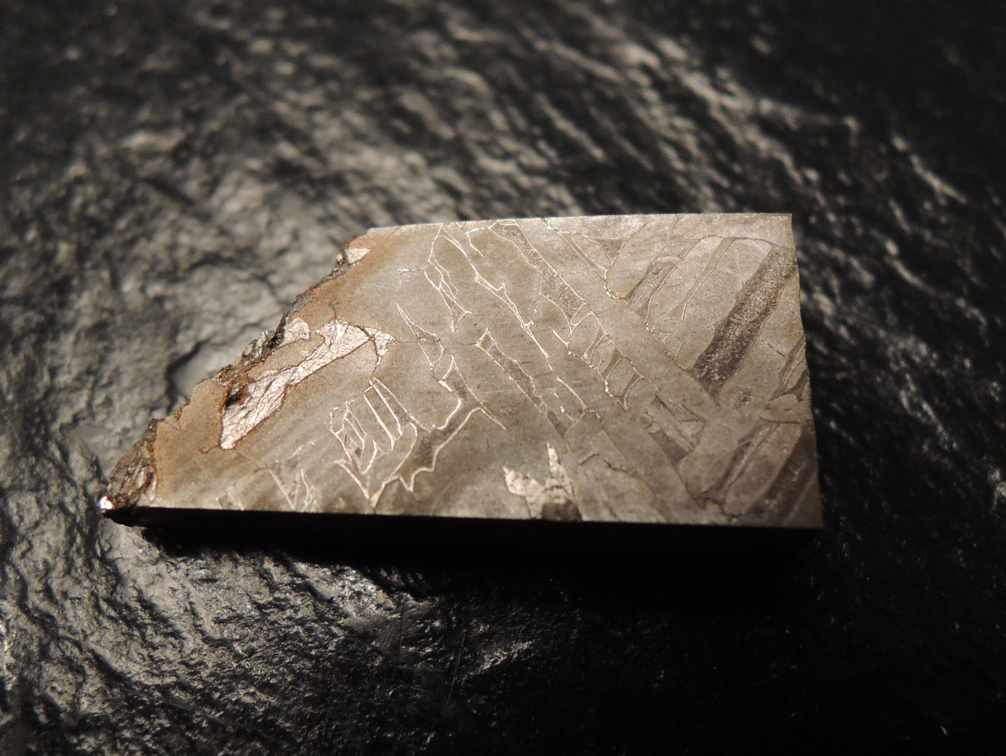 Elbogen meteorite etched slice. This historic IID med octahedrite iron was preserved in a castle in Bohemia, Czechoslovakia, and dates back to ~1400 AD. During it's storied history, attempts were made to melt the mass in a primitive blast furnace and it also survived a 34 year stint at the bottom of a well between 1742 and 1776. Interestingly, the first use of the term Widmanstatten figure in a scientific publication was by Schreibers who published a print of the Elbogen iron made by Alois Beck von Widmanstatten himself! This specimen weighs 8.9 grams and was expertly prepared by R. Kempton of the NEMS.